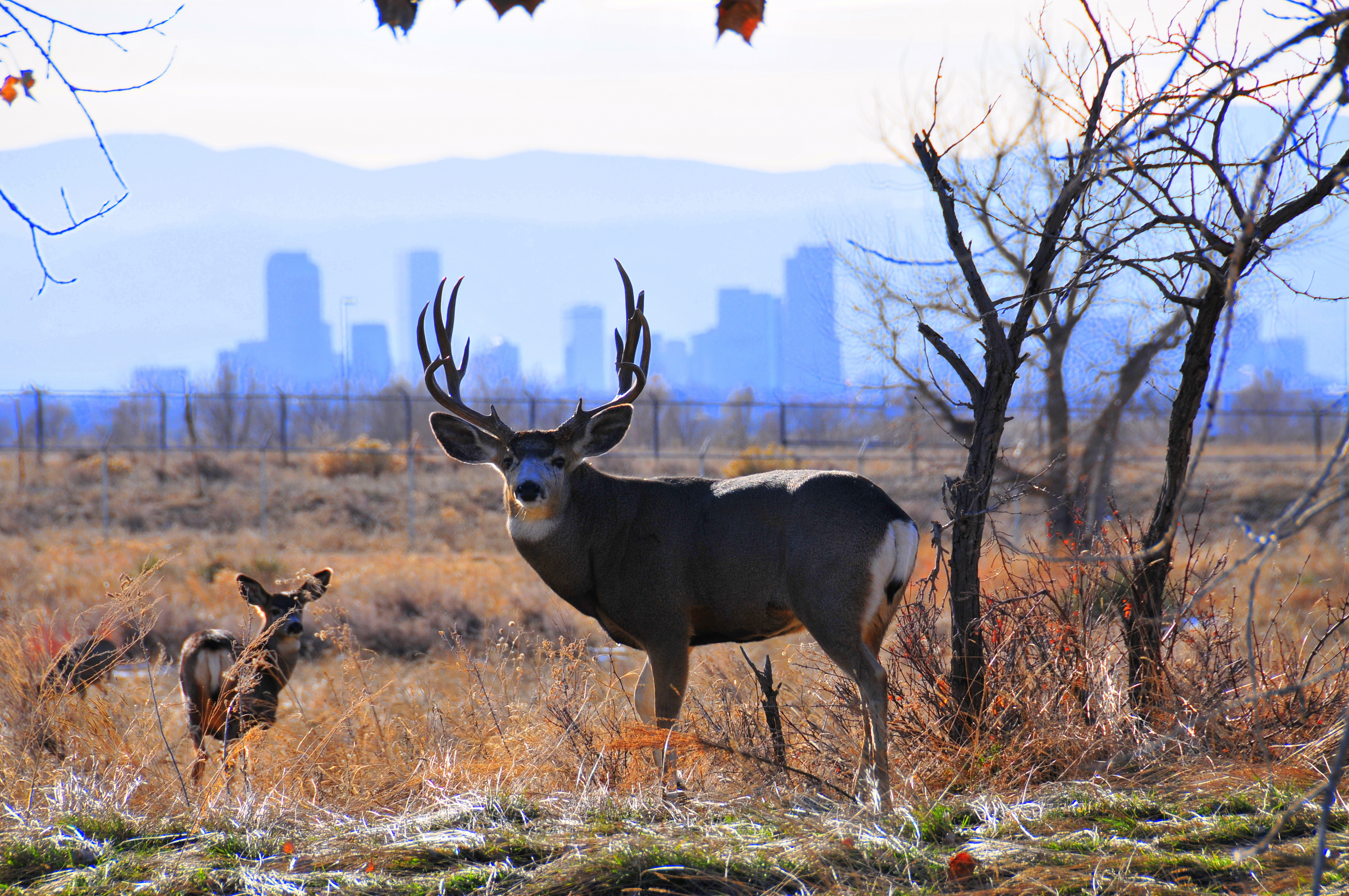 Mule deer buck at Rocky Mountain Arsenal National Wildlife Refuge outside of Denver, CO.